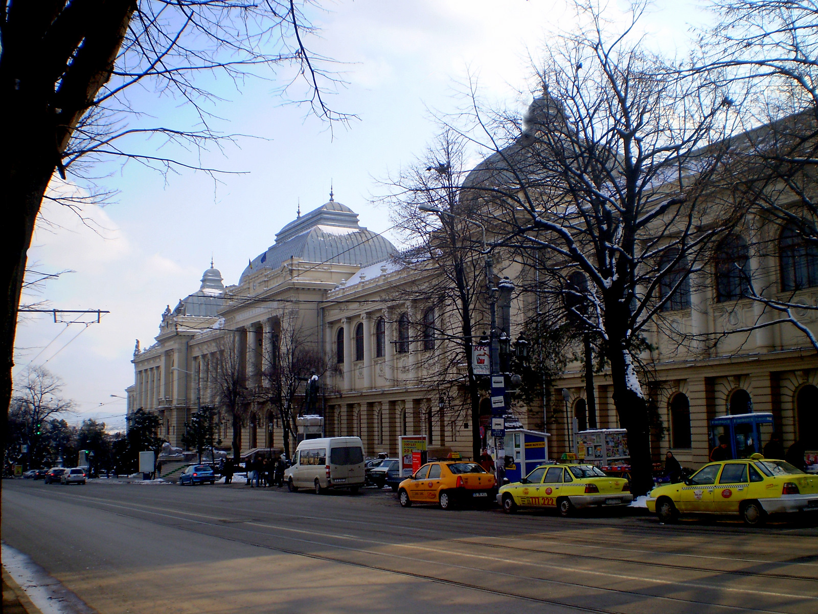 University "Alexandru Ioan Cuza" , Building A , Iaşi , Romania